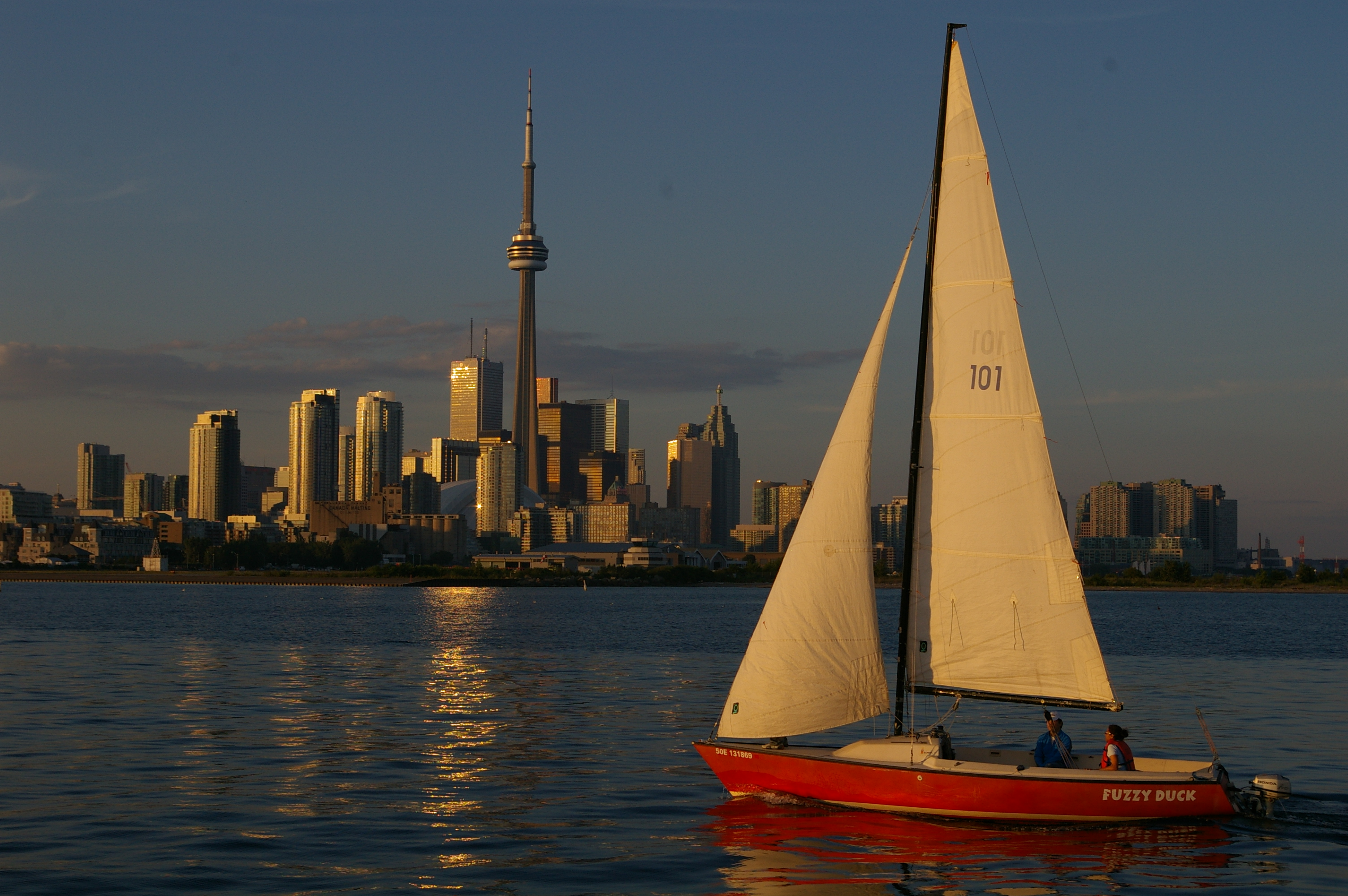 Sailboat passes in front of the Toronto skyline at sunset